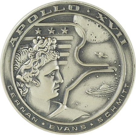 Photo of one of the 300 Robbins Medallions made for Apollo 17. This medallion is presently owned by former NASA worker Phil Konstantin.